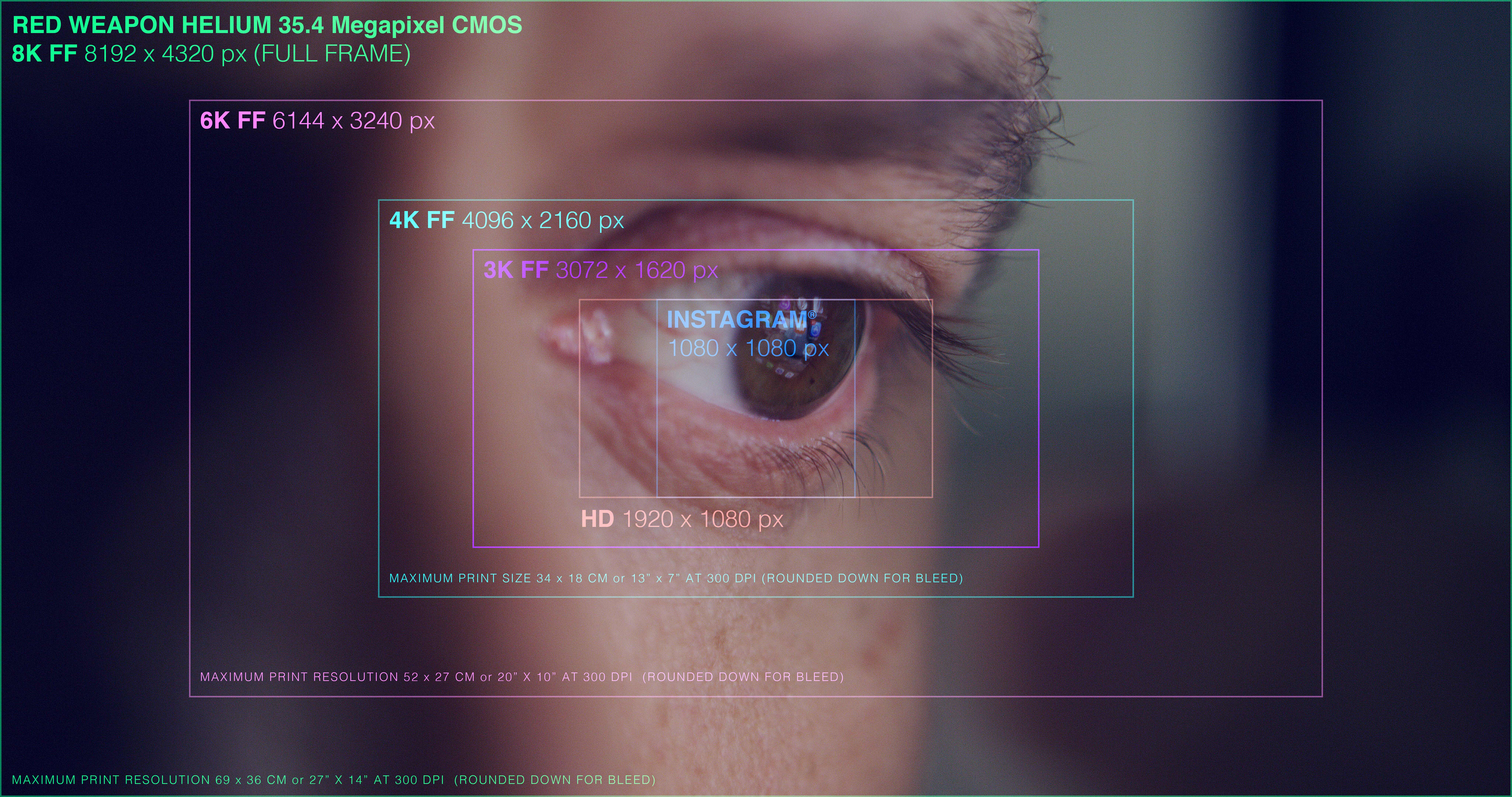 Red Weapon Helium 35.4 Megapixel CMOS 8K Image Sensor Full Frame Image with 6K, 4K, 3K, HD and Instagram® native resolution frame overlays. Captured with Canon FD 135mm f. 1:2.8 lens. Post processing in Adobe Photoshop Unsharp Mask 200% Radius 2, Threshold 0